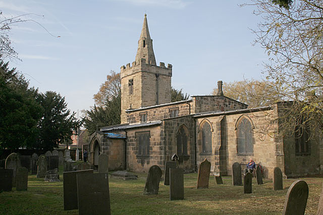 St. Catherine's Church, Cossall, near to Cossall, Nottinghamshire, Great Britain. An attractive little church dating from the 12th or 13th century. There are some interesting looking gravestones.